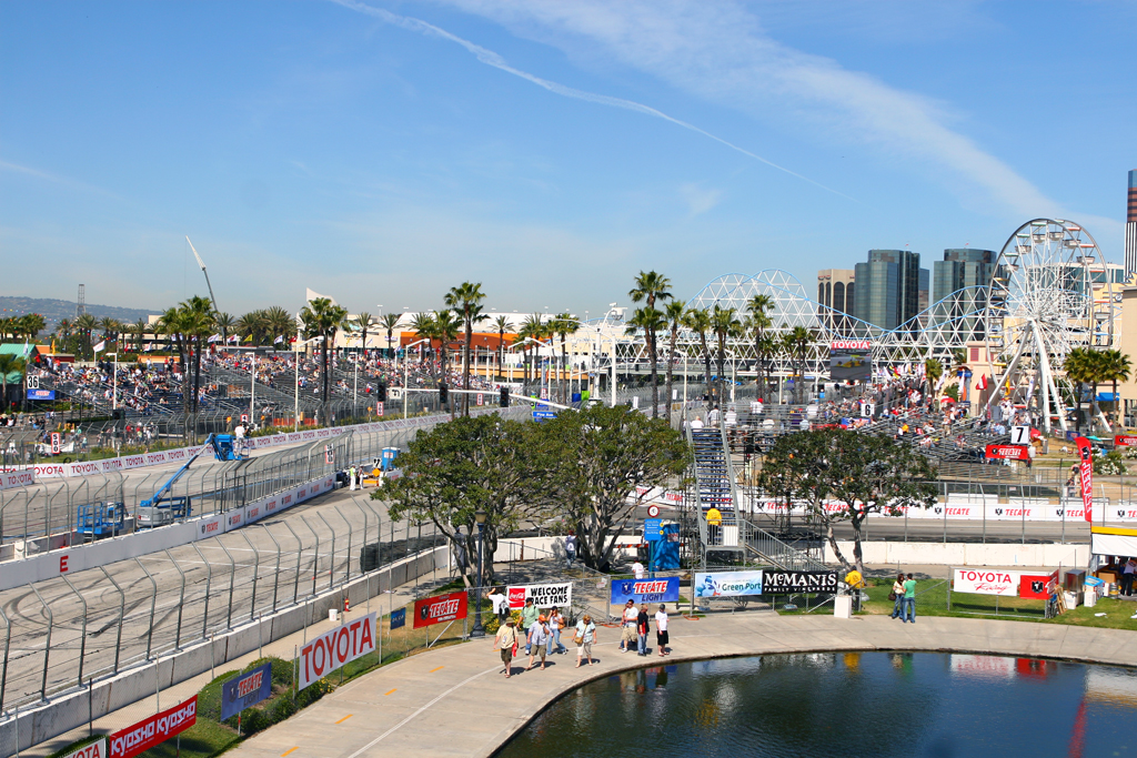 Toyota Grand Prix of Long Beach, 2009